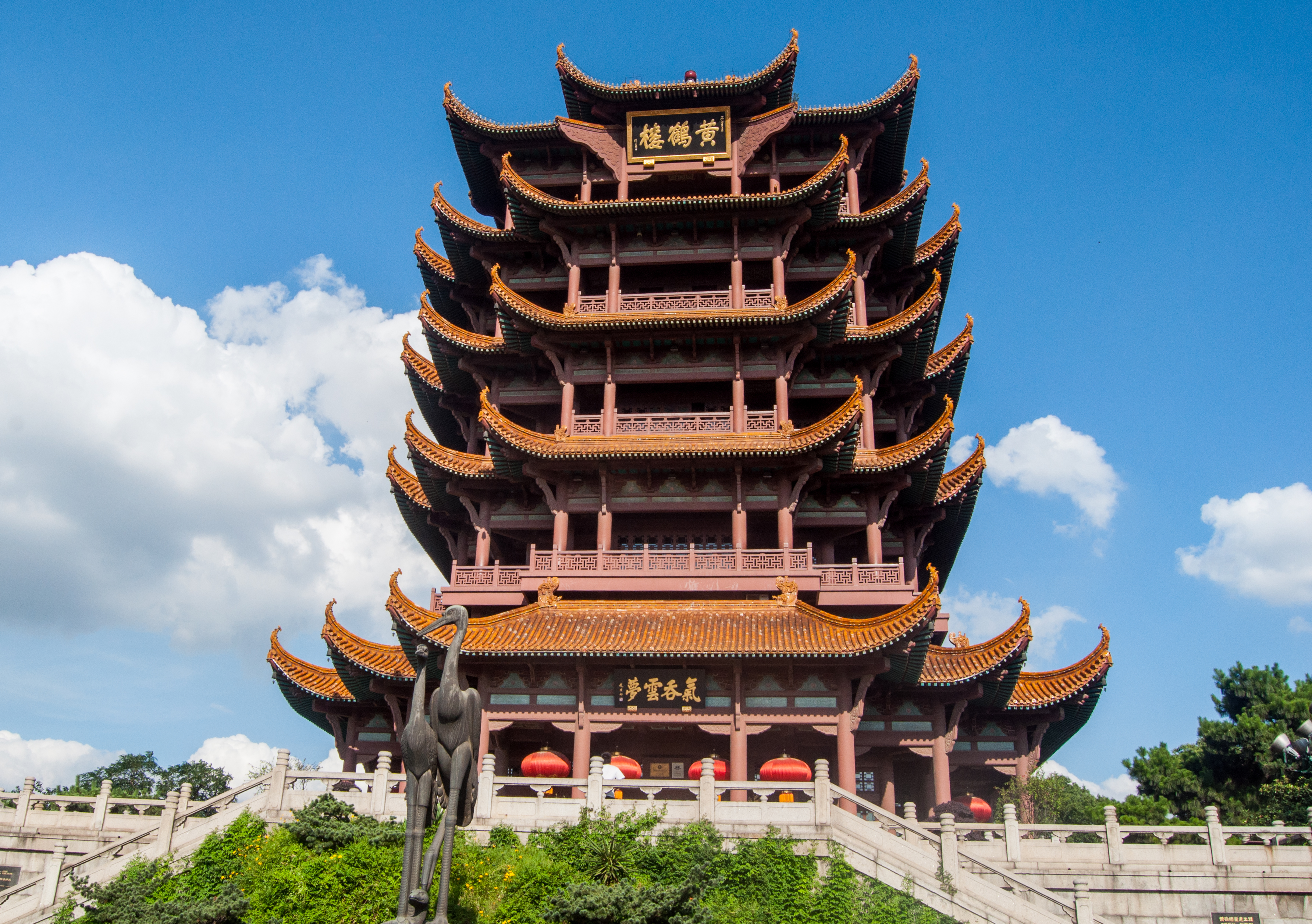 Yellow Crane Tower, Wuhan, China